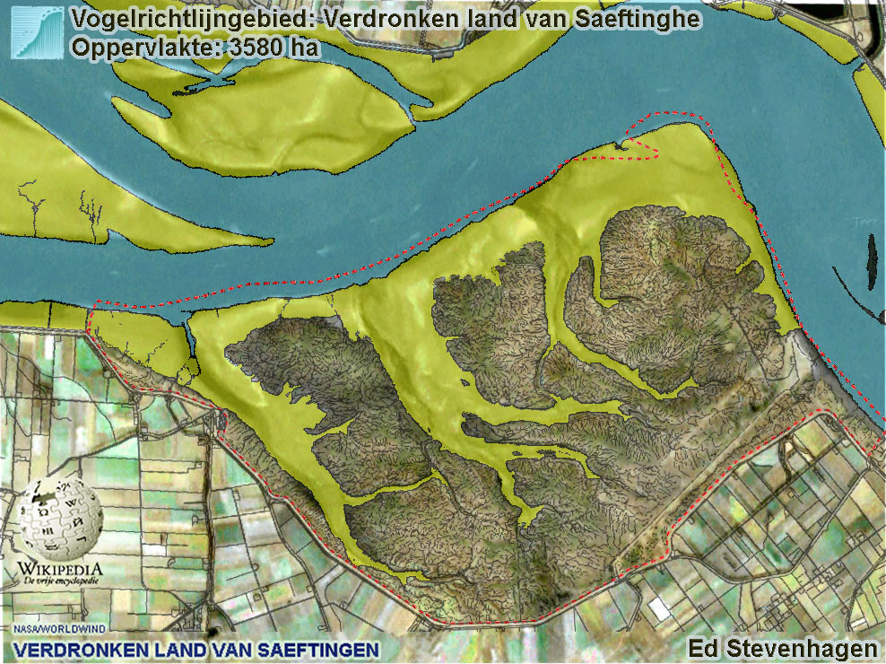 Bird guideline area: Drowned land of Saeftinghe; Satellite photo with topography.